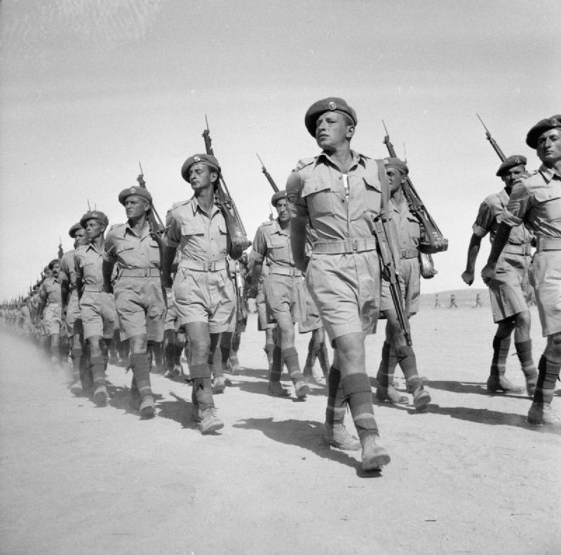 The British Mandate in Palestine 1917-1948 Men of the 1st Battalion, Jewish Brigade during a march past. The Jewish Brigade was formed in September 1944 and fought in Italy under the British Eighth Army.